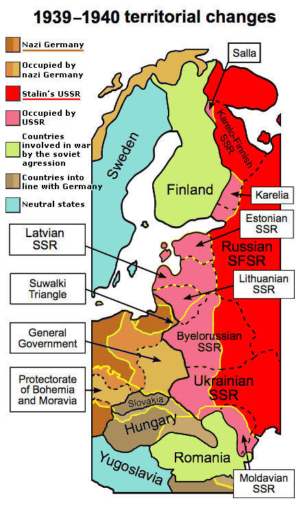 1939-40 territorial changes in Eastern Europe, derivative work since Peter Hanula's file:Ribbentrop-Molotov.svg.